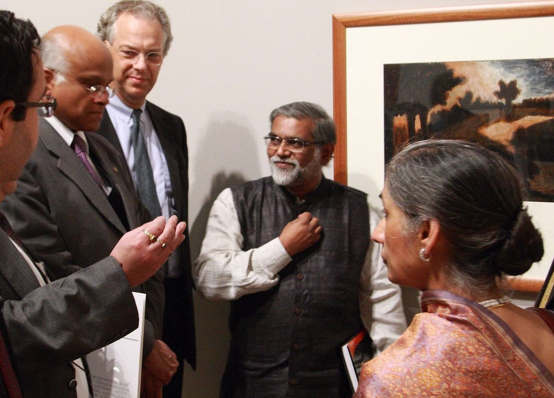 Professor R. Siva Kumar Explains Tagore's Painting